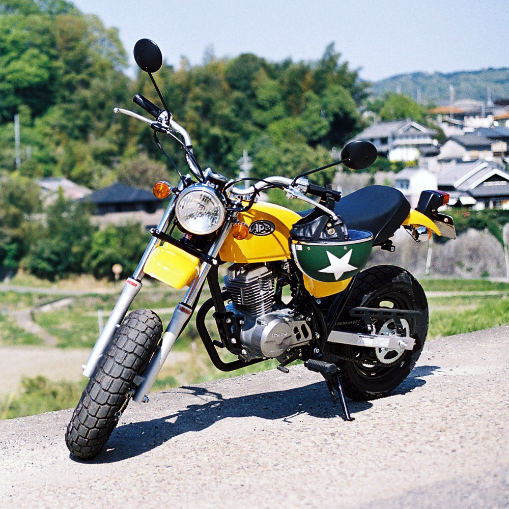 Honda Ape50 Type:BA-AC16